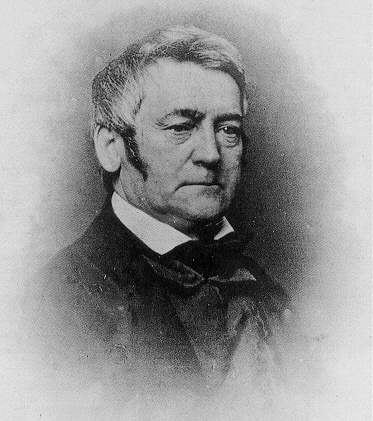 4th Librarian of Congress John Silva Meehan